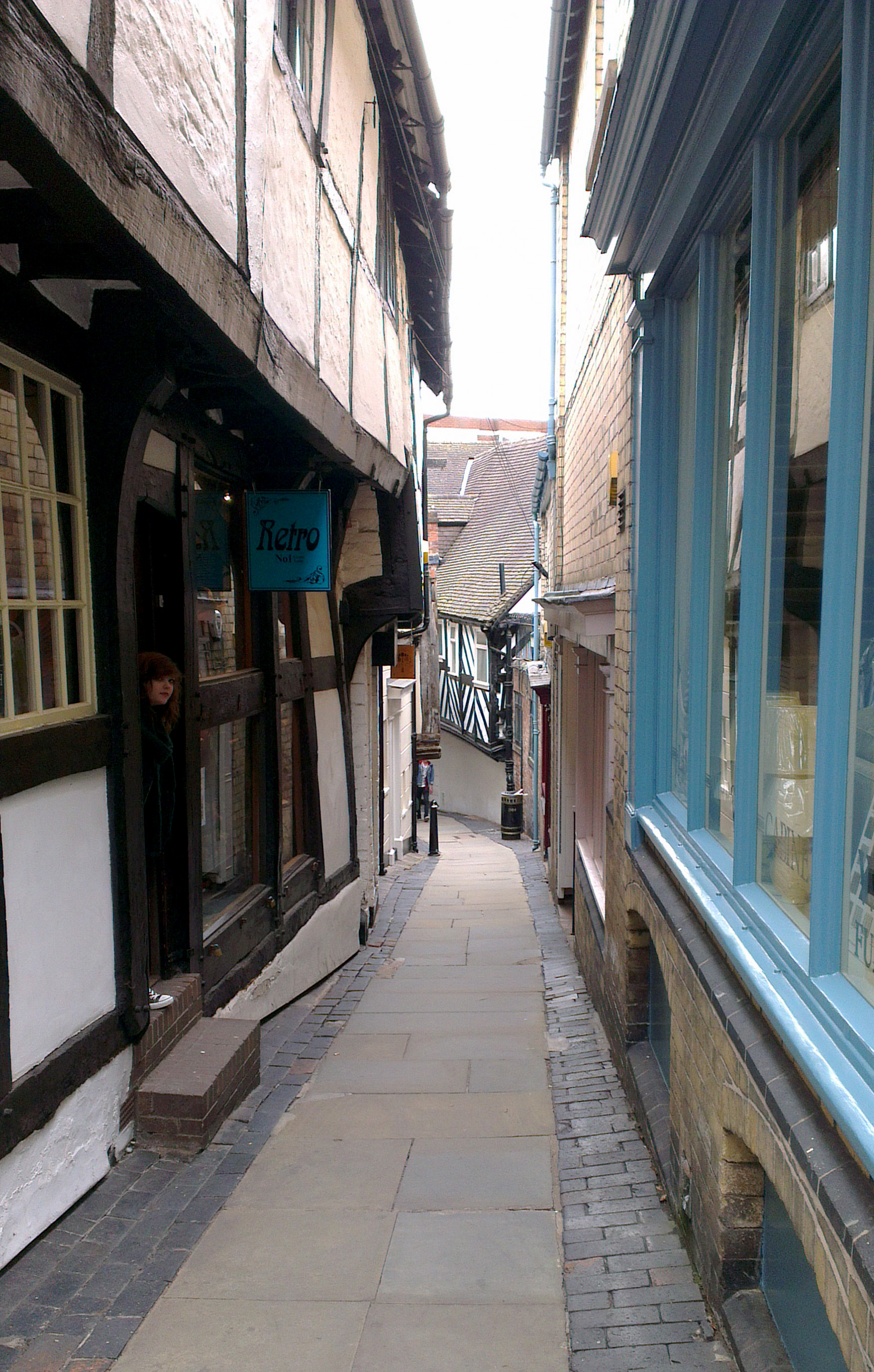 Grope Lane viewed from Fish Street.